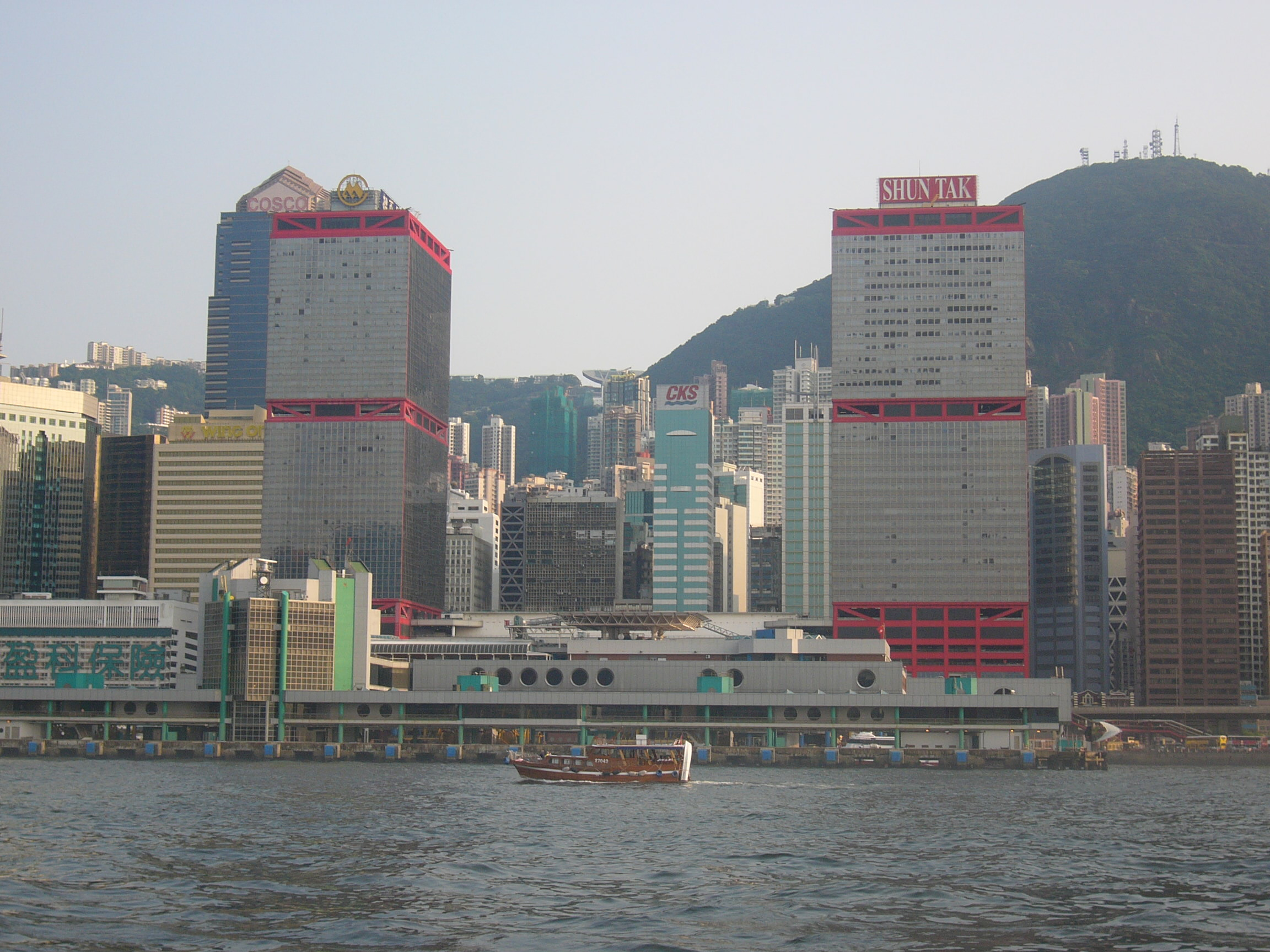 This work was created by me while on a boat to Cheung Chau.